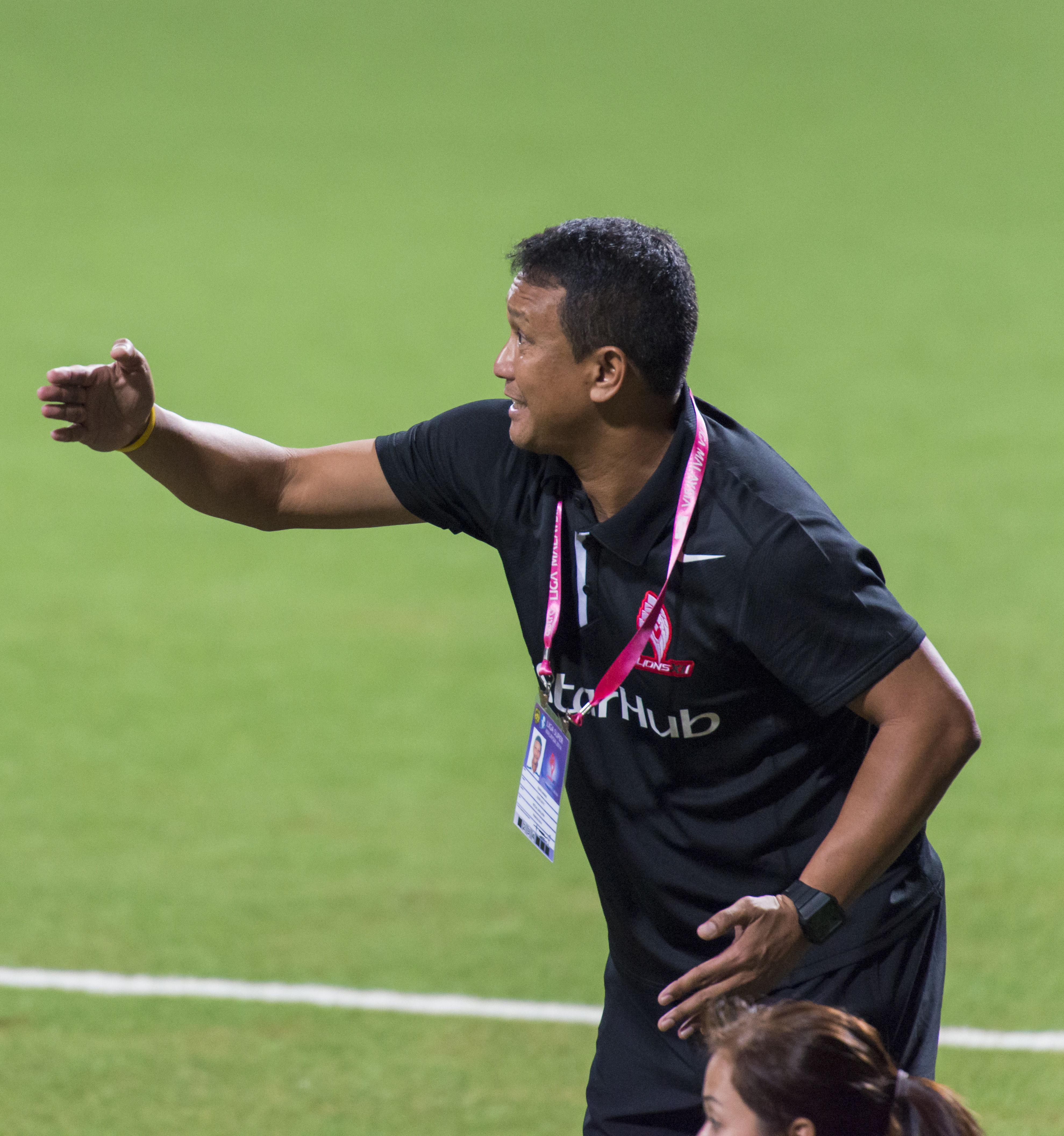 LionsXII head coach Fandi Ahmad during his team's match against Kelantan FA during the 2014 Malaysian Super League at Jalan Besar Stadium, Singapore.